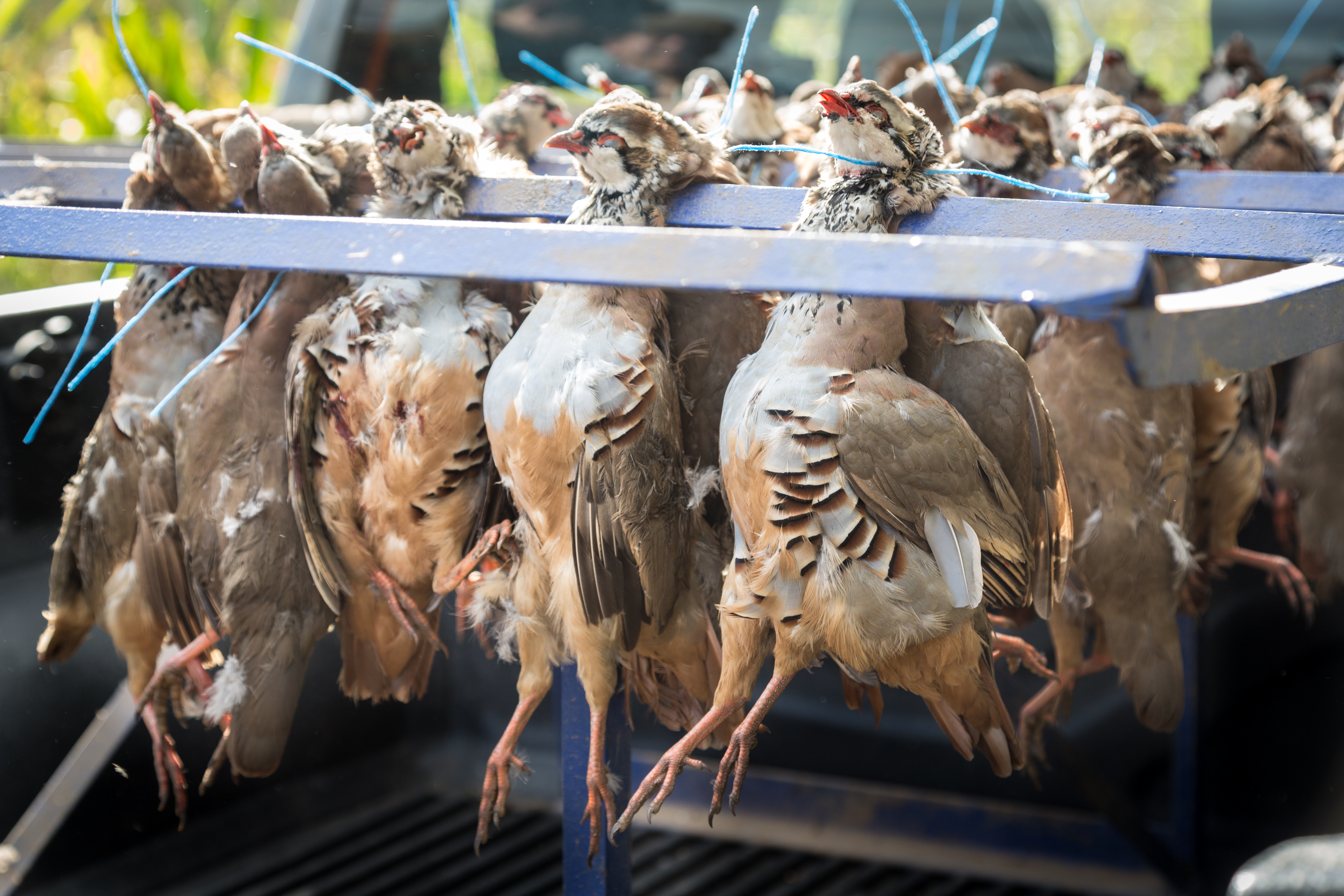 game rack with red-legged partridge (Alectoris rufa) - Hampshire Macnab: roe, rod and redleg